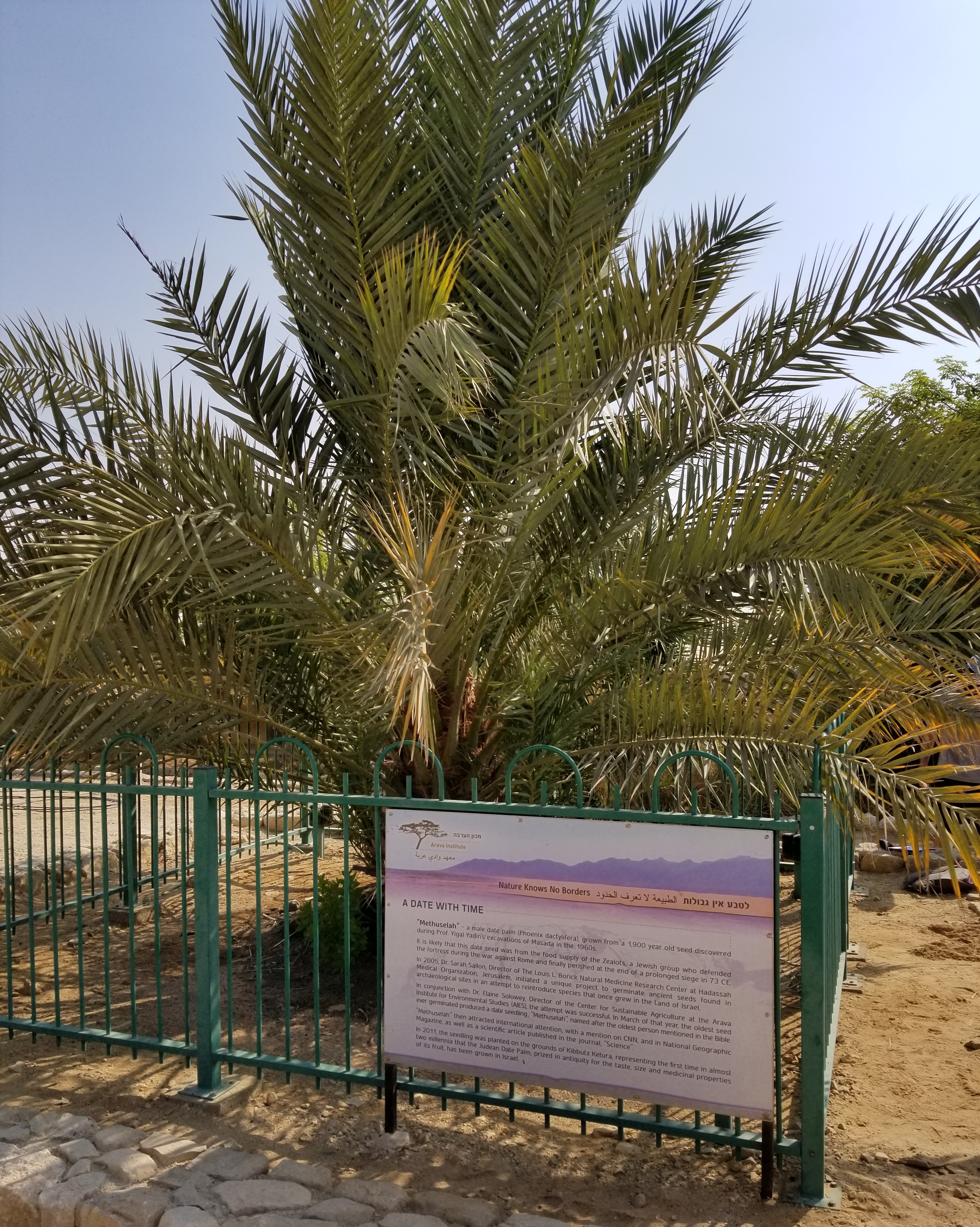 The only example of a Judean Date Palm located at Kibbutz Ketura, Israel. It was germinated in 2005 from a 2000-year-old seed found in the Masada excavations, and is nicknamed "Methuselah".